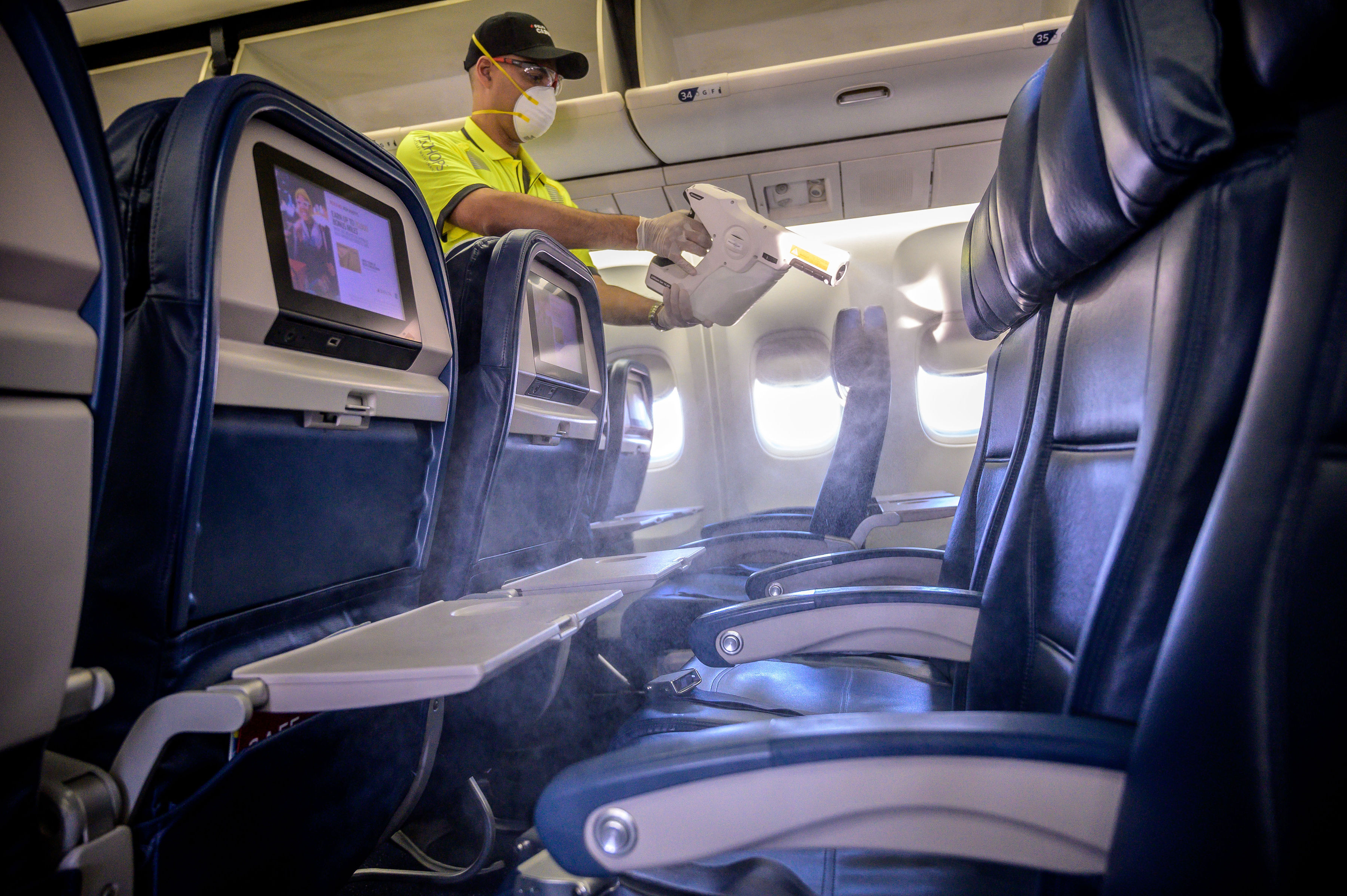 Delta people disinfect the surfaces of the cabin including tray tables, seat backs and in-flight entertainment screens in a Boeing 757 in Atlanta, Ga., on Friday, March 6, 2020. The sanitizing solution is the same solution used to sanitize hospitals nationwide.